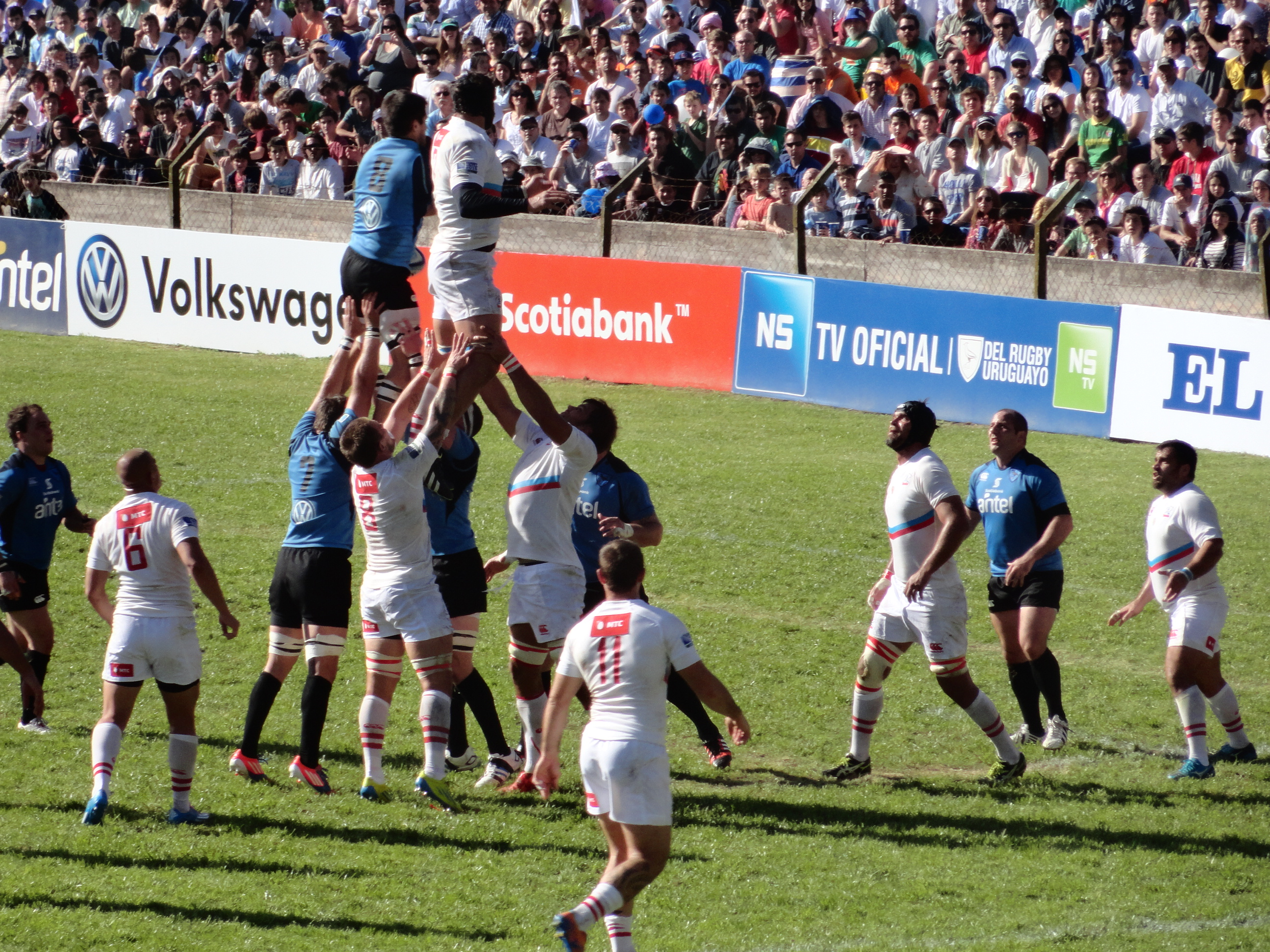 Repechage qualifier match for the 2015 Rugby World Cup between Uruguay and Russia